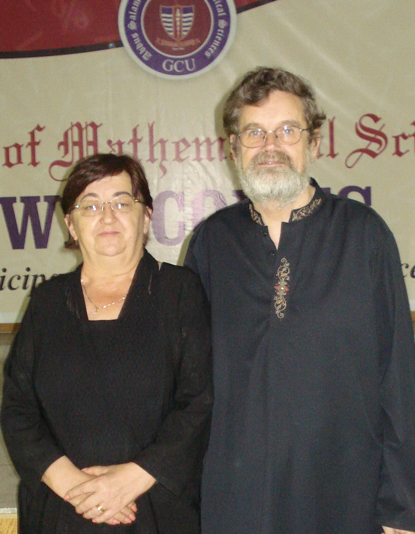 Josip Pečarić on right with his wife Ankica Pečarić